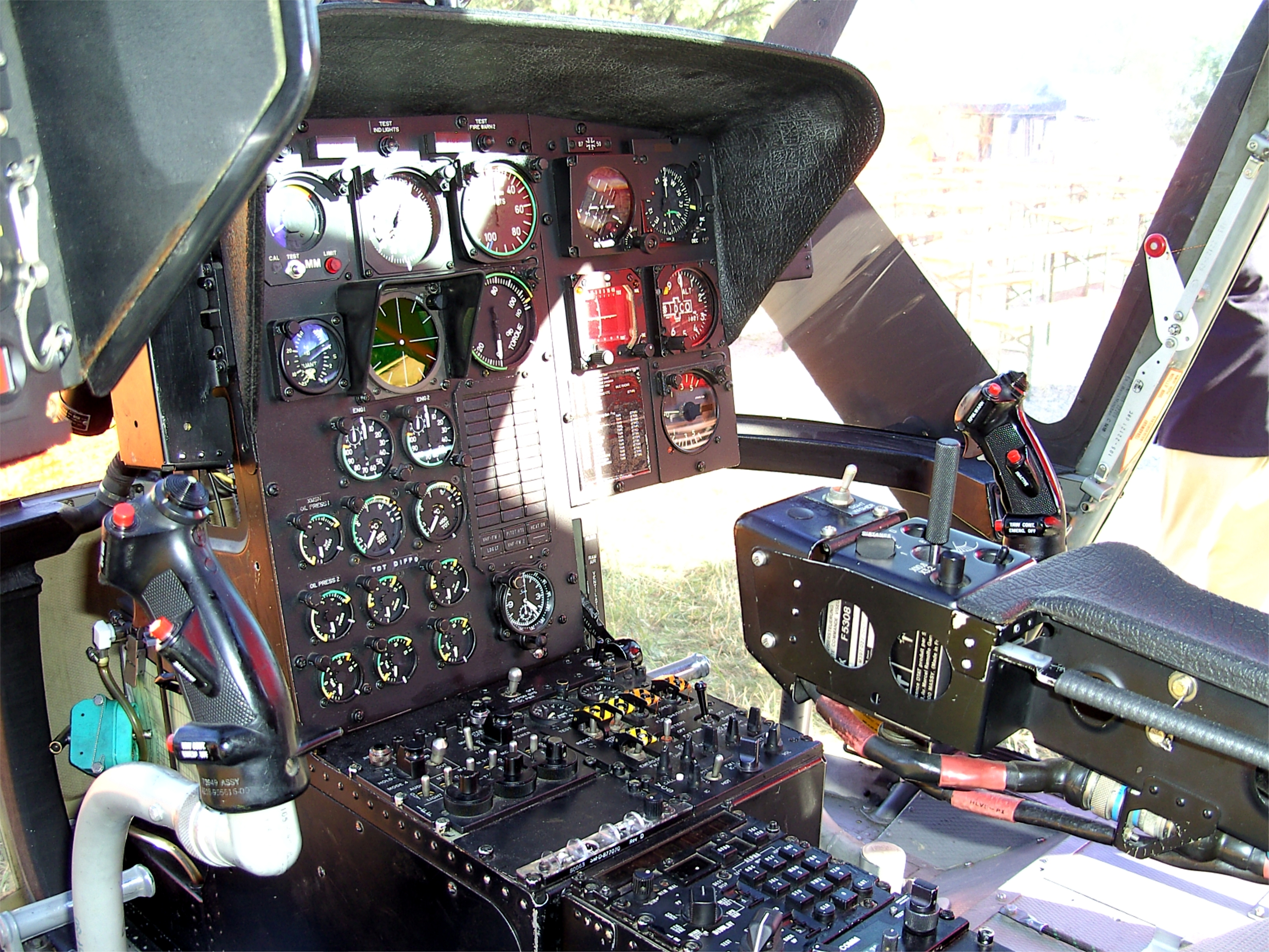 Cockpit of a PAH BO 105 P-1A1 of the german Kampfhubschrauberregiments 26 "Franken". The small joystick is for steering the missle which is guided through a trailing wire.